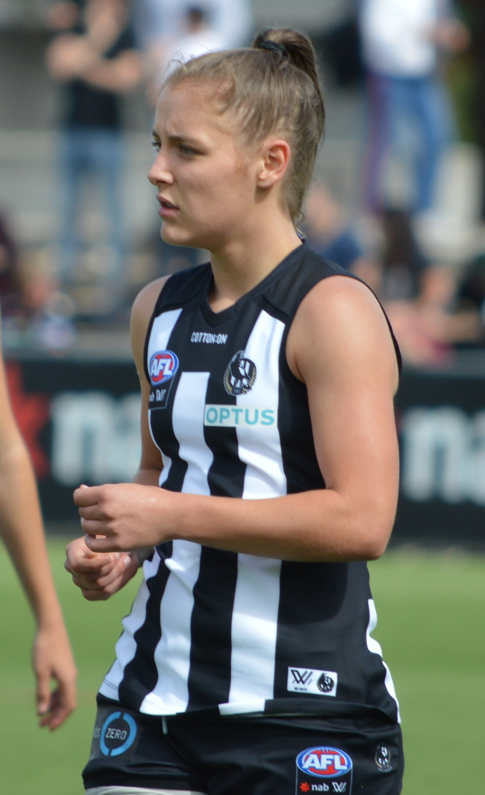 Mikala Cann with Collingwood during a match against Melbourne at Victoria Park in round 2 of the 2019 AFL Women's season.